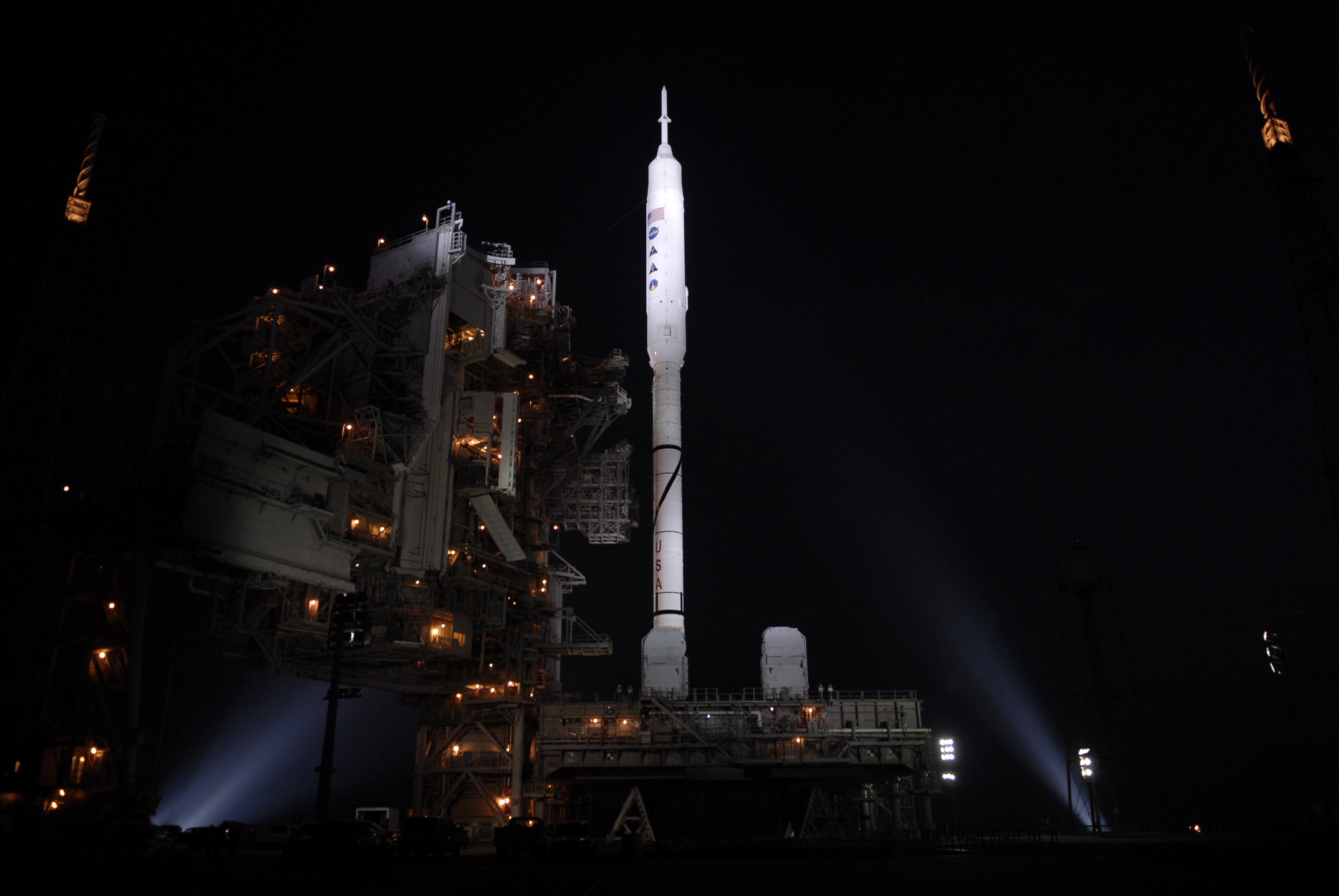 CAPE CANAVERAL, Fla. – At Launch Pad 39B at NASA's Kennedy Space Center in Florida, xenon lights illuminate the Constellation Program's 327-foot-tall Ares I-X rocket after the rotating service structure, has been retracted from around it for launch. The transfer of the pad from the Space Shuttle Program to the Constellation Program took place May 31. Modifications made to the pad include the removal of shuttle unique subsystems, such as the orbiter access arm and a section of the gaseous oxygen vent arm, and the installation of three 600-foot lightning towers, access platforms, environmental control systems and a vehicle stabilization system. The data returned from more than 700 sensors throughout the rocket will be used to refine the design of future launch vehicles and bring NASA one step closer to reaching its exploration goals. The Ares I-X flight test is targeted for Oct. 27. For information on the Ares I-X vehicle and flight test, visit